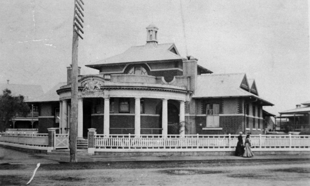 Customs House Building, Mackay ca. 1909. Customs House Mackay opened in 1902, at the corner of River and Sydney Streets. There is a bas-relief of the Edwardian Coat of Arms on the parapet of the semicircular entrance. Ladies can be seen walking on the footpath, outside the building.